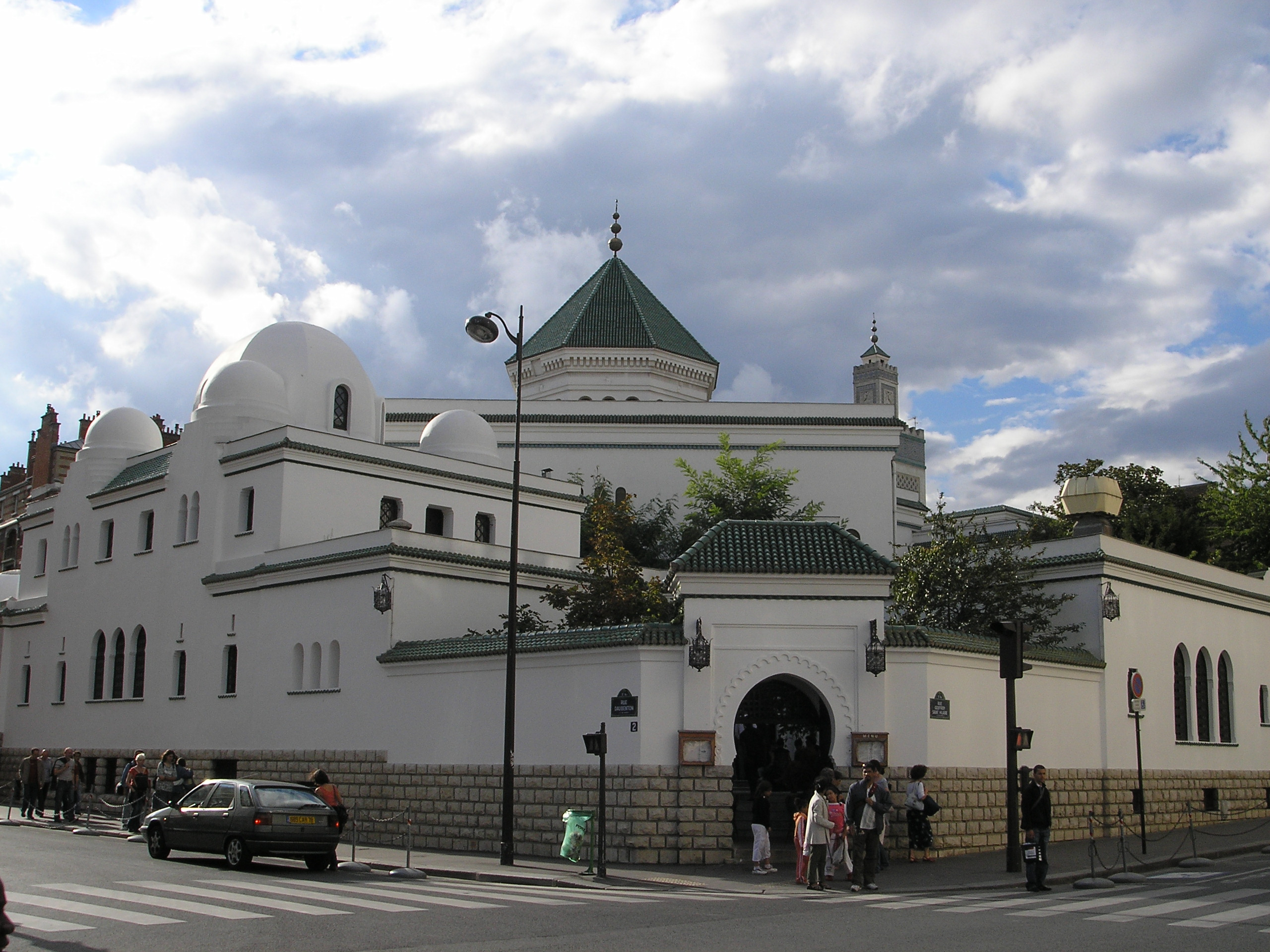 Image of the Mosque of Paris.